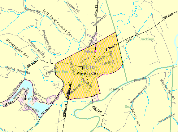 Map of Waverly, a village in Pike County, Ohio, United States, with its boundaries at the time of the 2000 census.